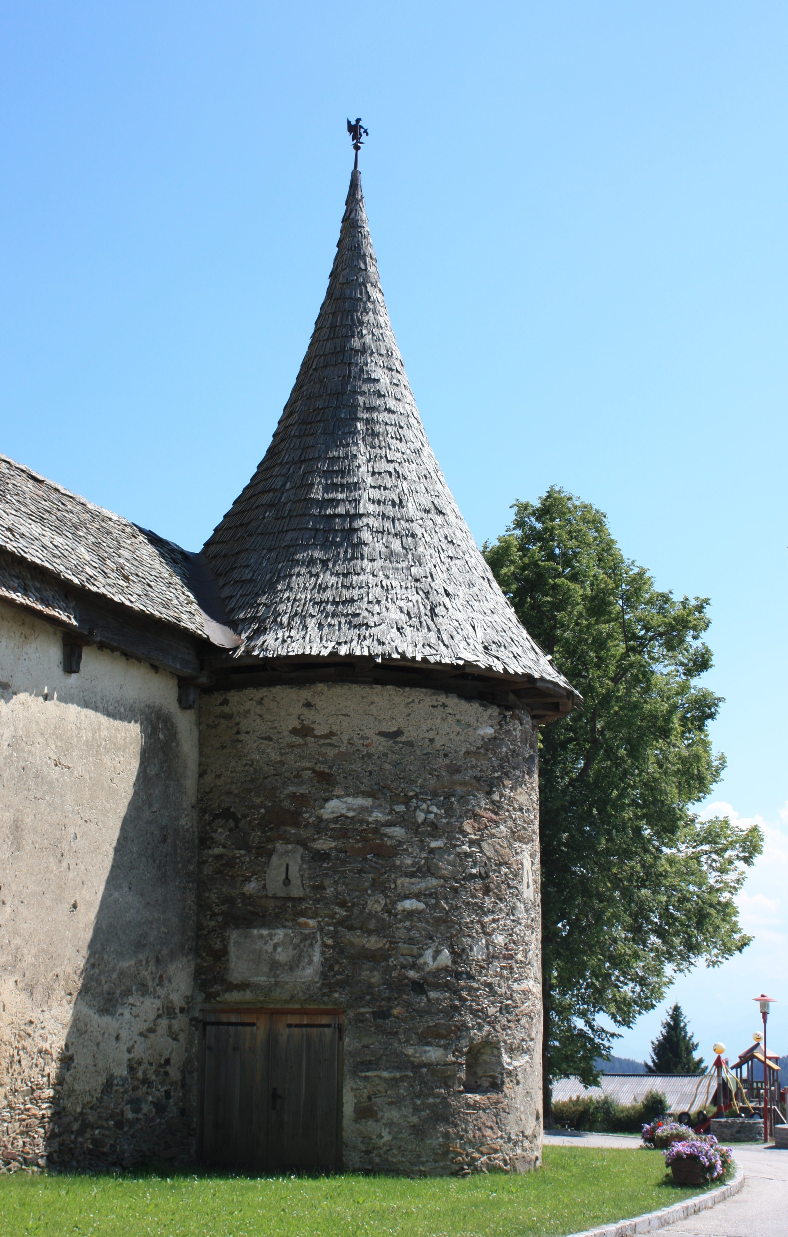 Parish church "Saint Martin" in Diex in the community of Diex - Fortification